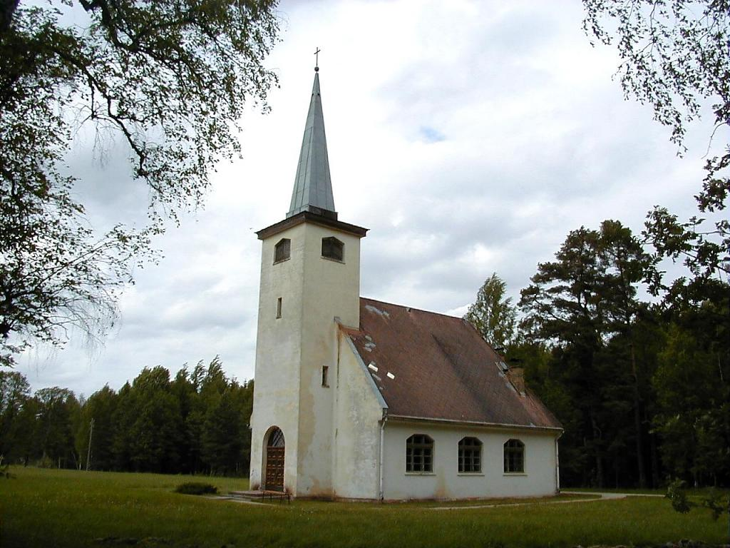 Dzedri Lutheran church